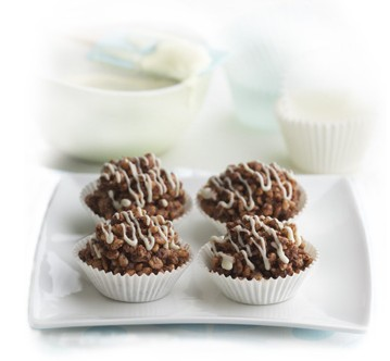 "own work" heyay choclate crackles are the bomb